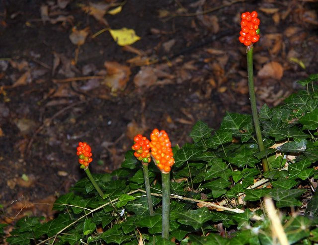 Cuckoo Pint berries in Bibury